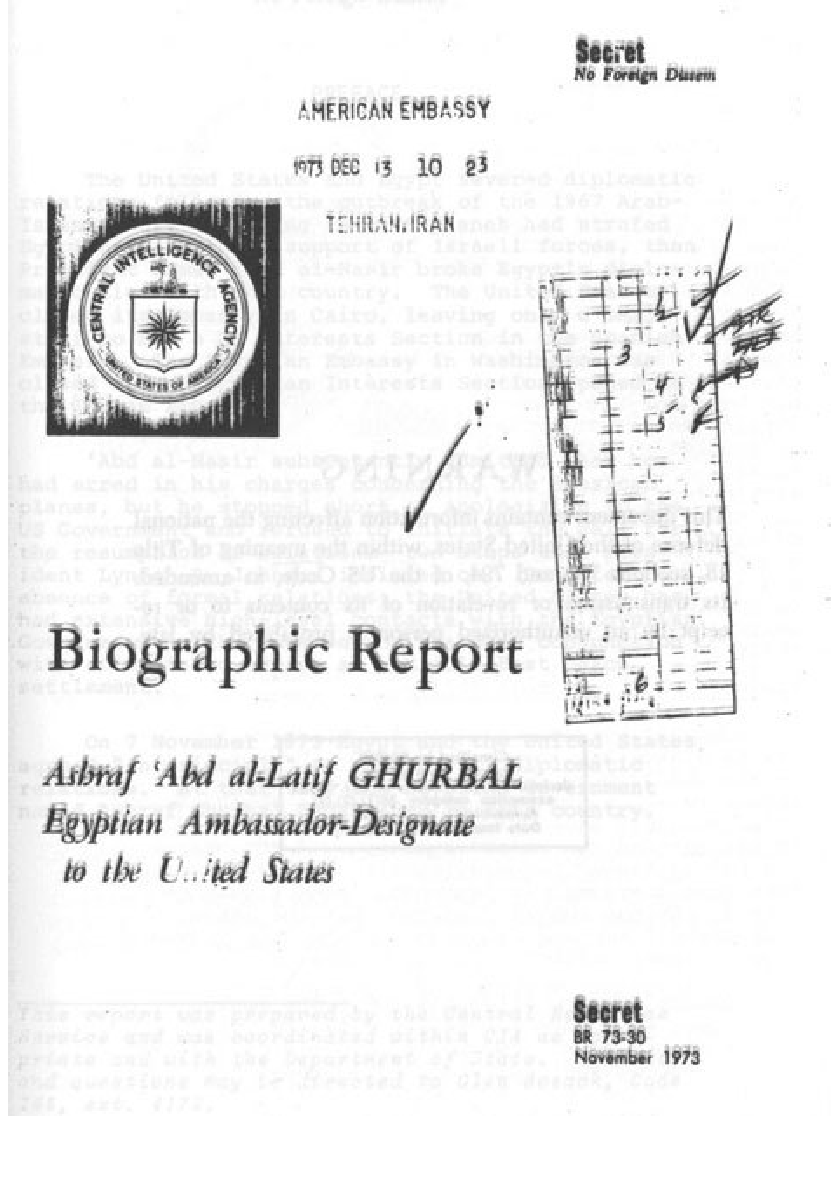 Cover of a secret CIA "Biographic Report" on Egyptian Ambassador-Designate Ashraf Ghorbal, dated November 1973. It was among the documents seized from the US Embassy in Tehran in 1979 by Iranian students.